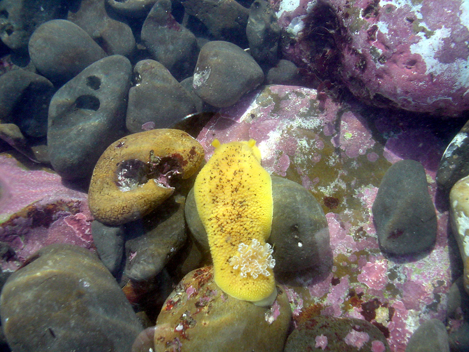 Sea Lemon,Peltodoris nobilis Nudibranch in California tide pools